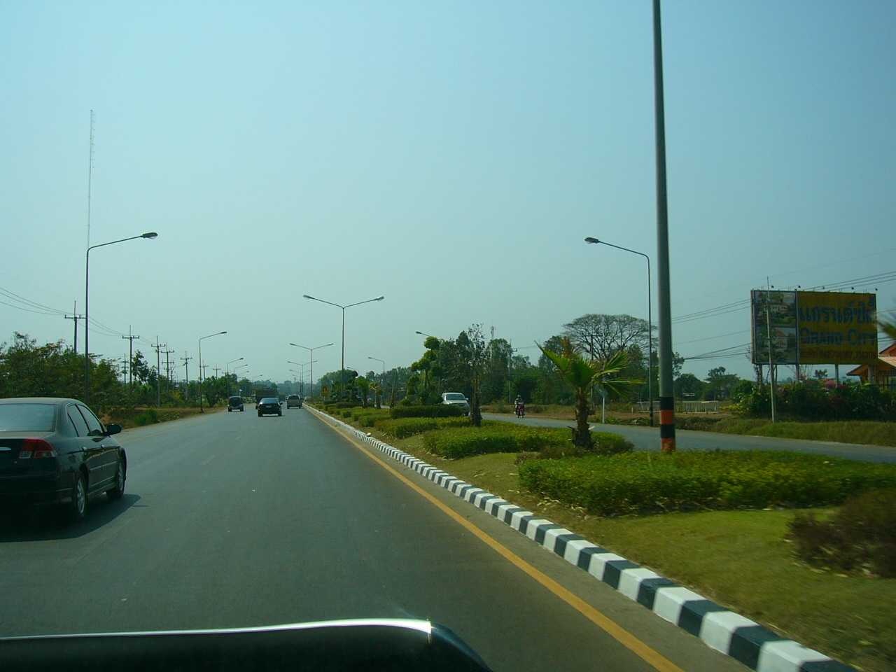 Big street in Sakon Nakhon, Thailand